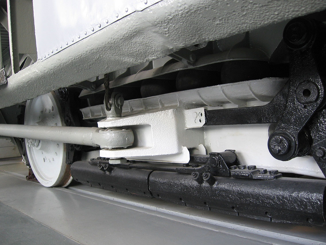 Bogie of Kruckenberg´s SVT 137 155 in Transport museum Dresden